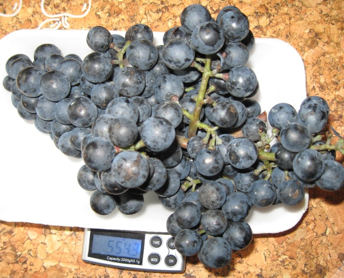 Dornfelder - weight of one bunch